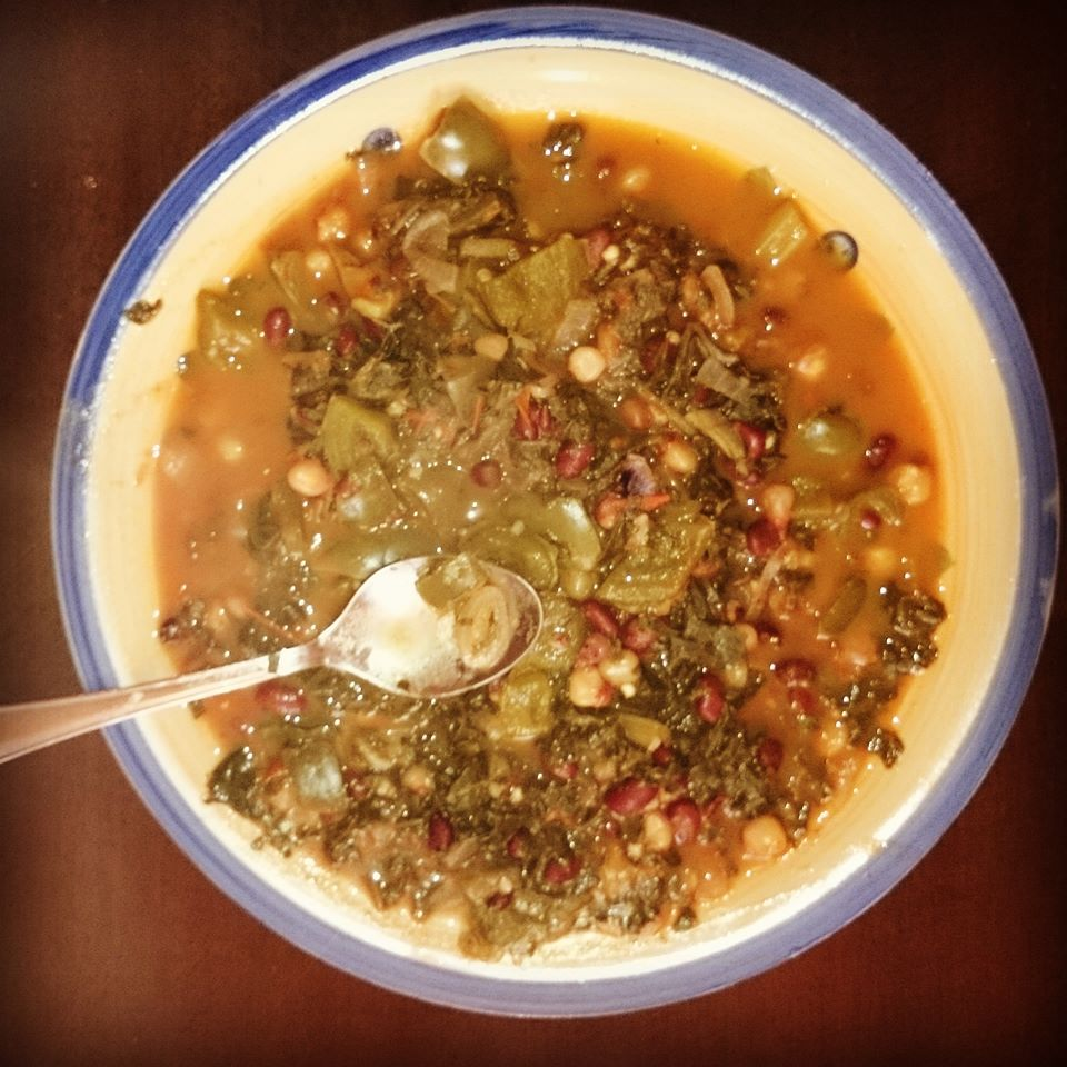 Mixture of maize and beans, boiled then spiced up/fried This is an image of food from Kenya